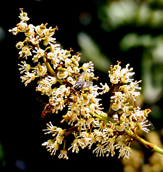 Lychee Litchi chinensis at Samsing in Darjeeling district of West Bengal, India.